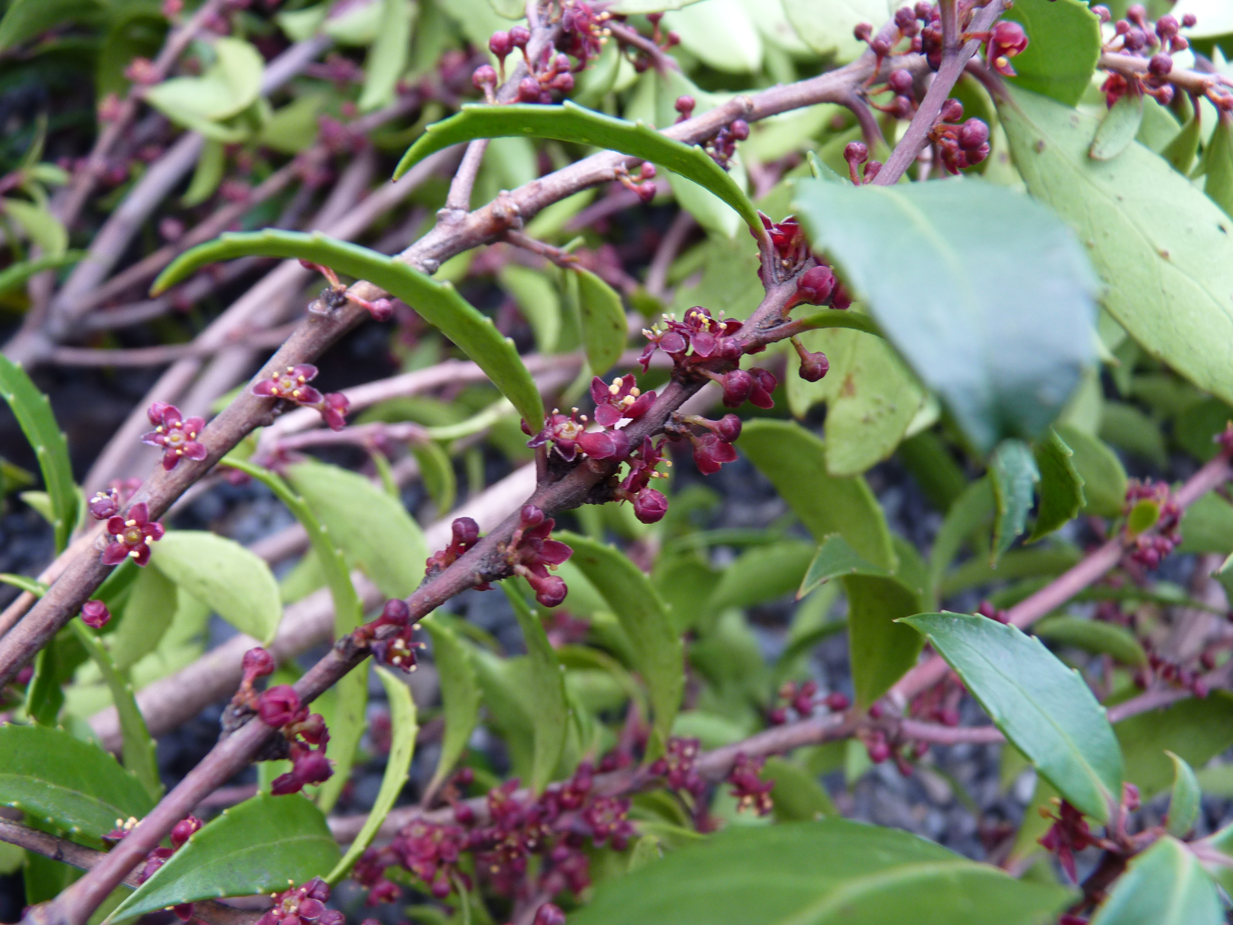 Maytenus magellanica flowers